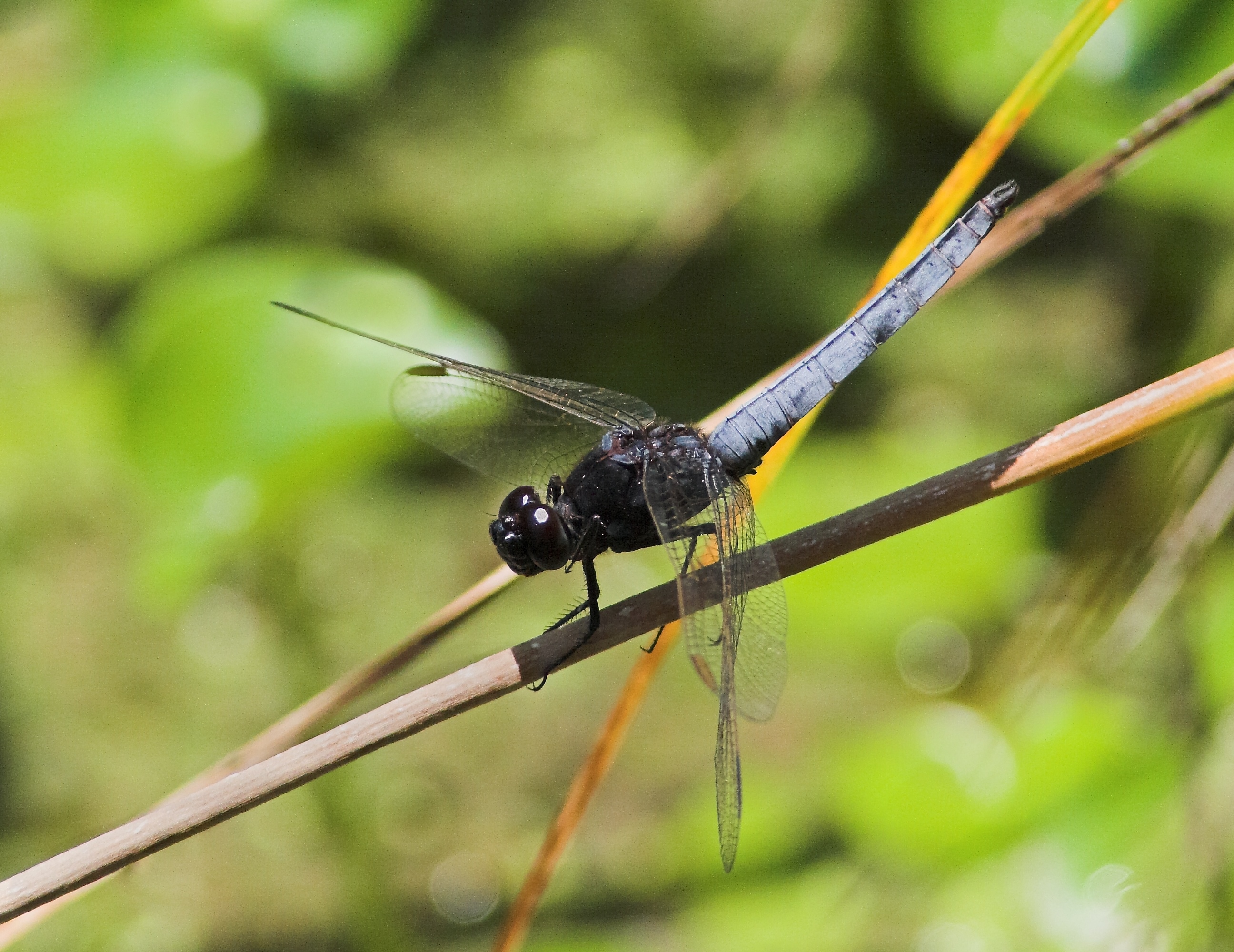 A male C. nigrifrons in Australia